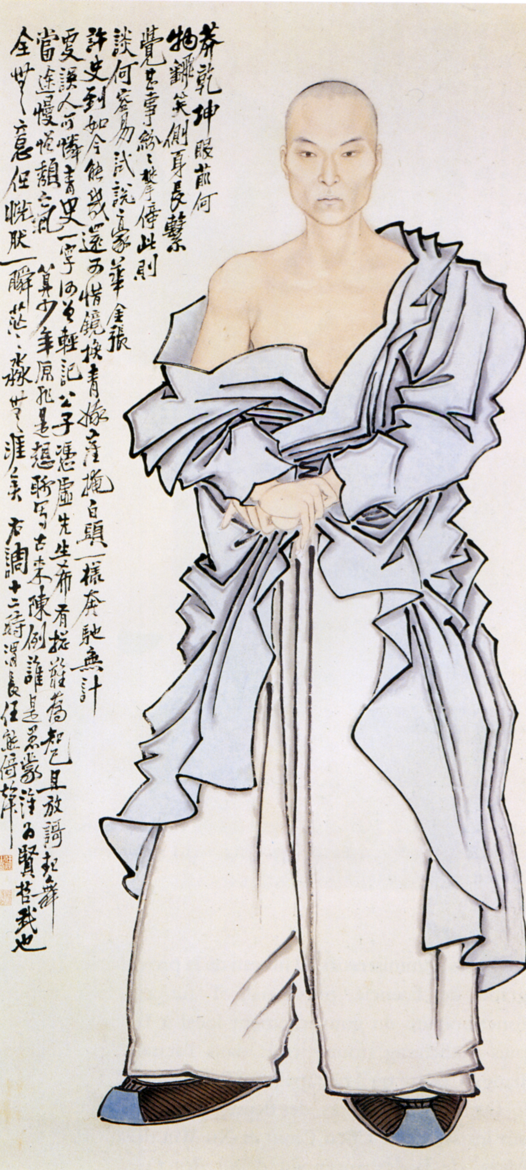 Self portrait of Ren Xiong (1823-1857), ink and colours on paper, 177,5x78,8cm. Palace Museum, Beijing.